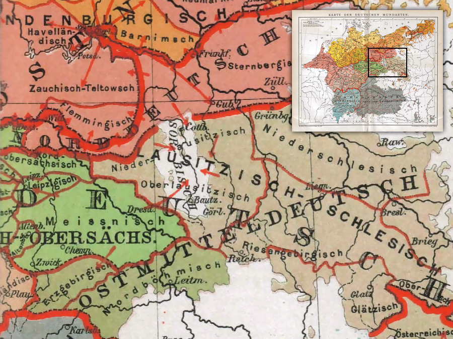 Part of the “Map of the German Dialects” with Sorbian in the center. Brockhaus (German encyclopedia), Leipzig, 1894.